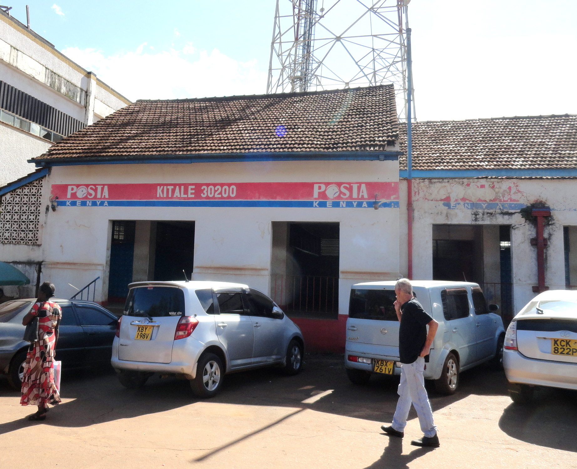 Post Office of Kitale in 2019